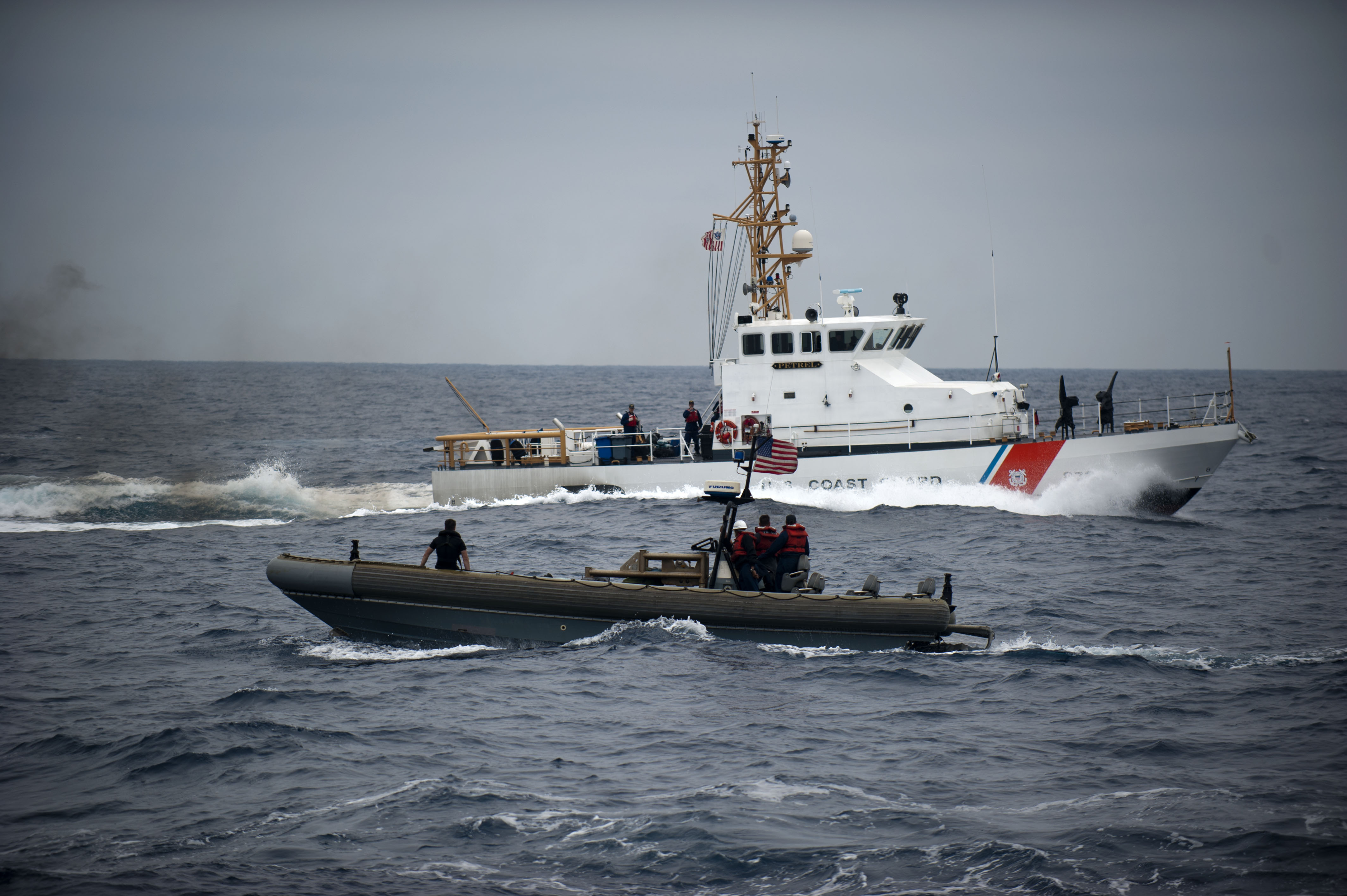 PACIFIC OCEAN (Aug. 20, 2011) Sailors assigned to the San Antonio-class amphibious transport dock ship USS New Orleans (LPD 18) prepare to hand over suspected drugs seized from a vessel in distress to the Coast Guard off the coast of San Diego. New Orleans responded to a distress call during a pre-deployment exercise leading to the seizure of more than 1,800 lbs. of alleged contraband. (U.S. Navy photo by Mass Communication Specialist 3rd Class Dominique Pineiro/Released)